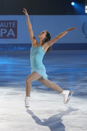 Laura Lepistö. 2008 European Championships.